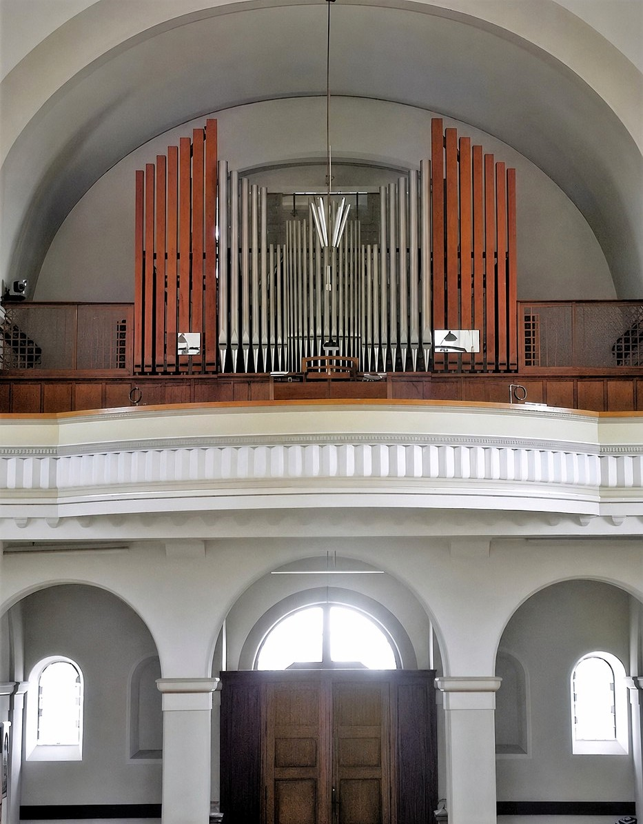 Interior of the roman catholic church in Güdesweiler, Saarland